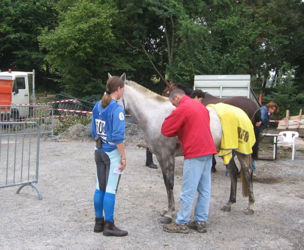 A veterinary inspection in an endurance ride